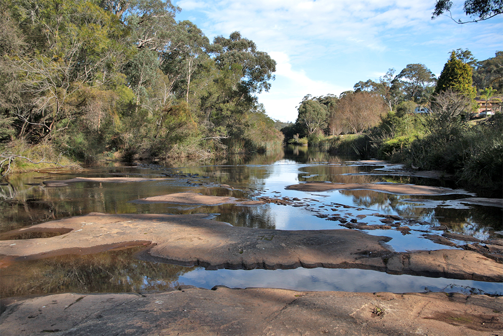 Crossing point over Bargo River, south of Tahmoor NSW